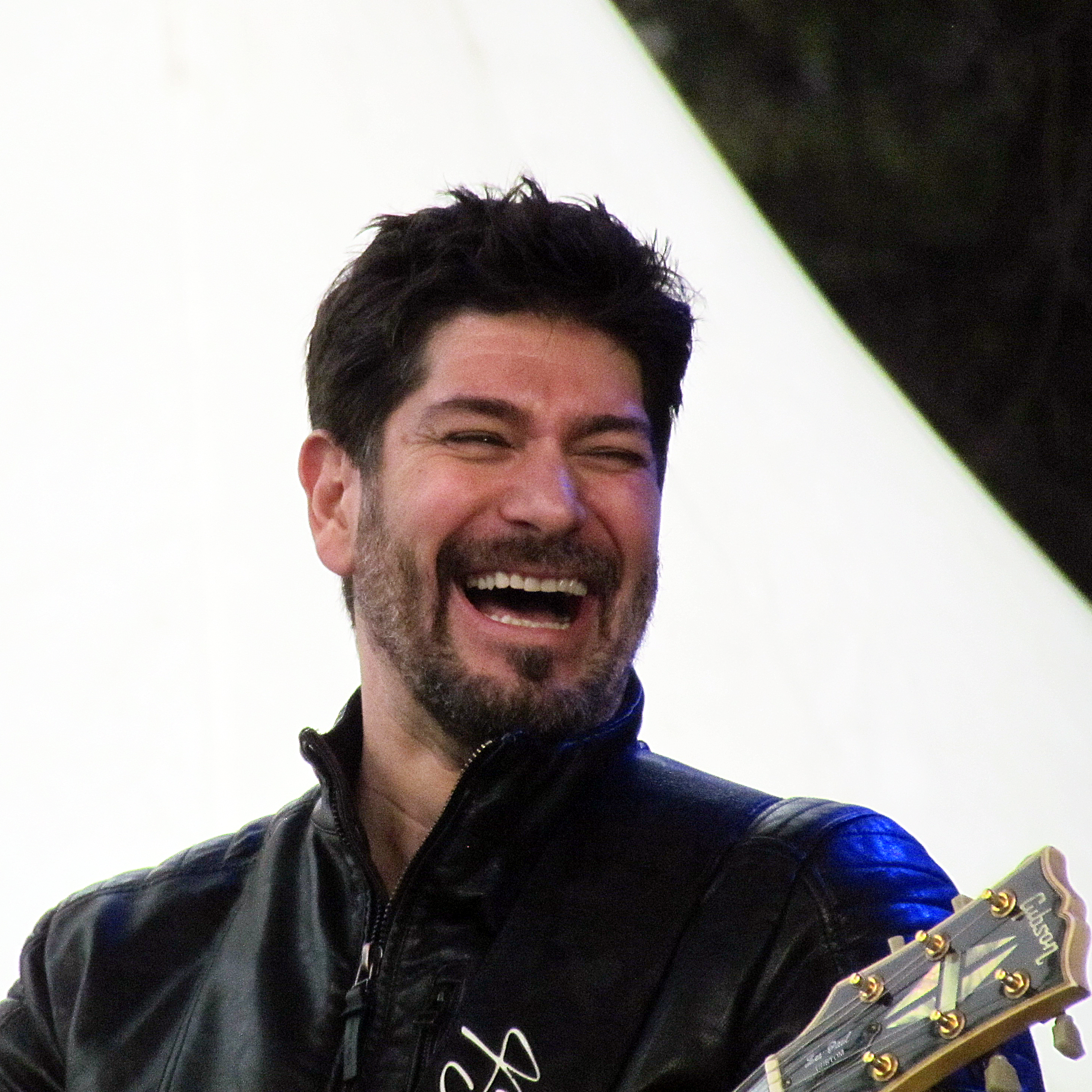 Petar Jelic, Serbian musician